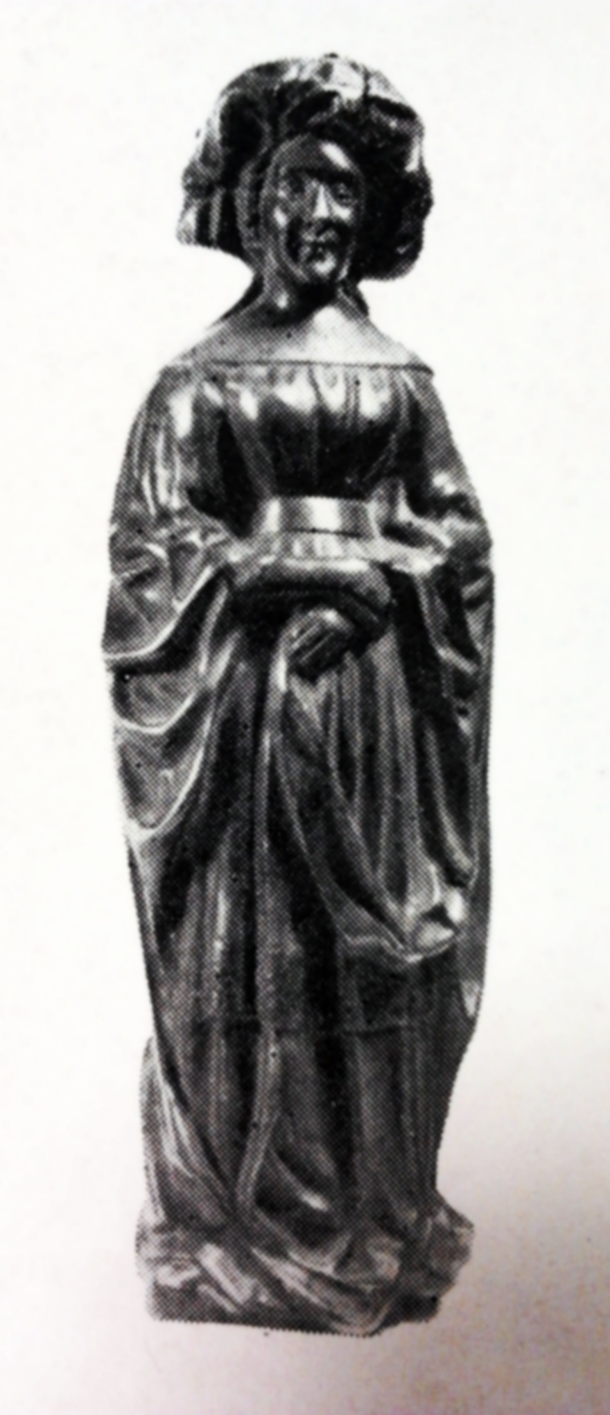 Photograph